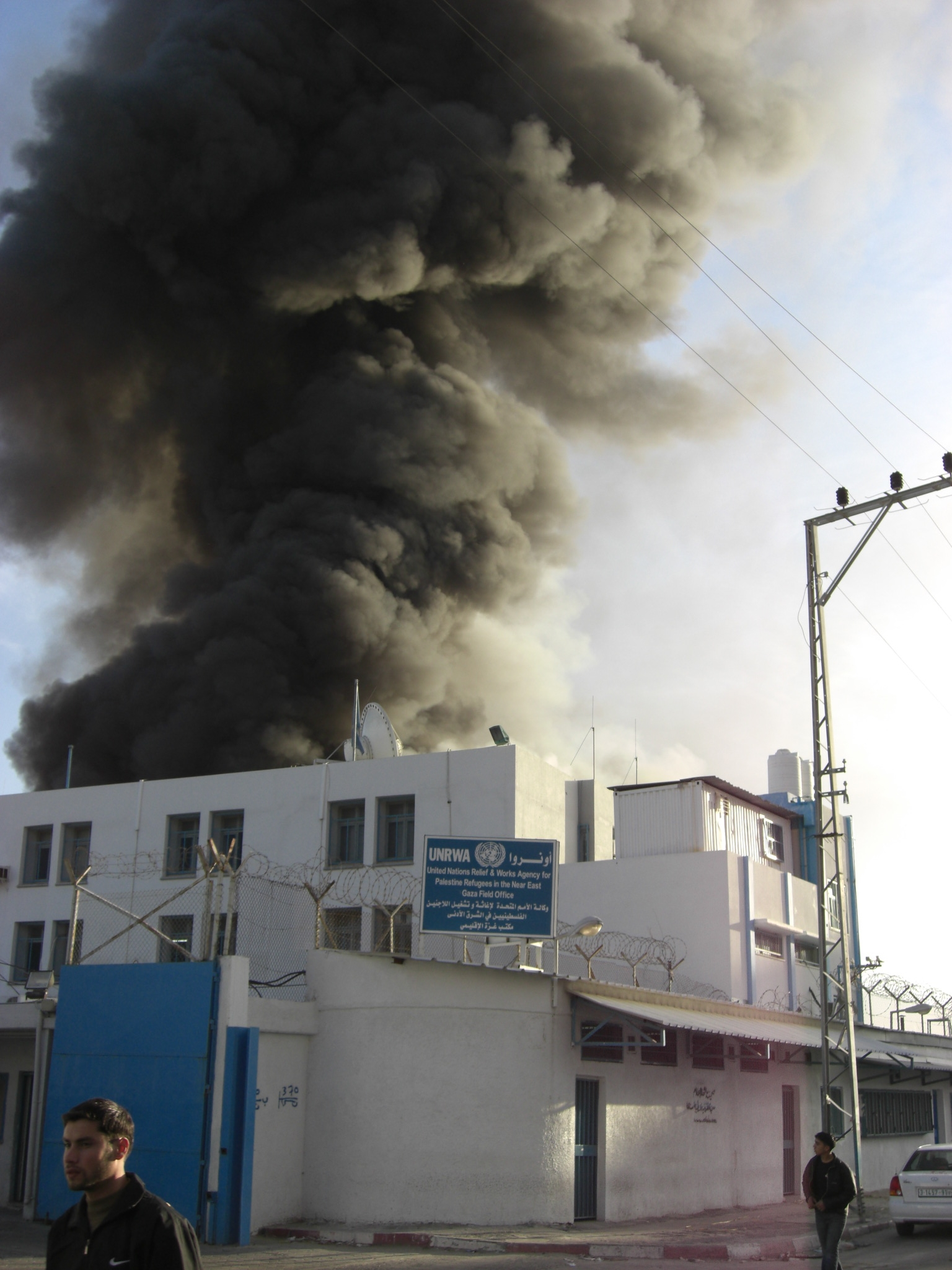 15th January 2009 - ISM photos taken in the aftermath of UNRWA building shelled by Israeli army in Gaza